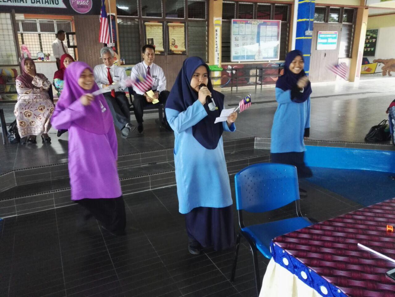 Murid Tahun 5 dan 6